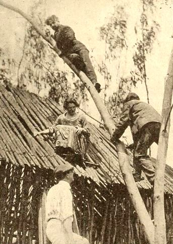 Still from the American film serial Perils of Thunder Mountain (1919) with Antonio Moreno and Carol Holloway, on page 777 of the July 19, 1919 Motion Picture News.